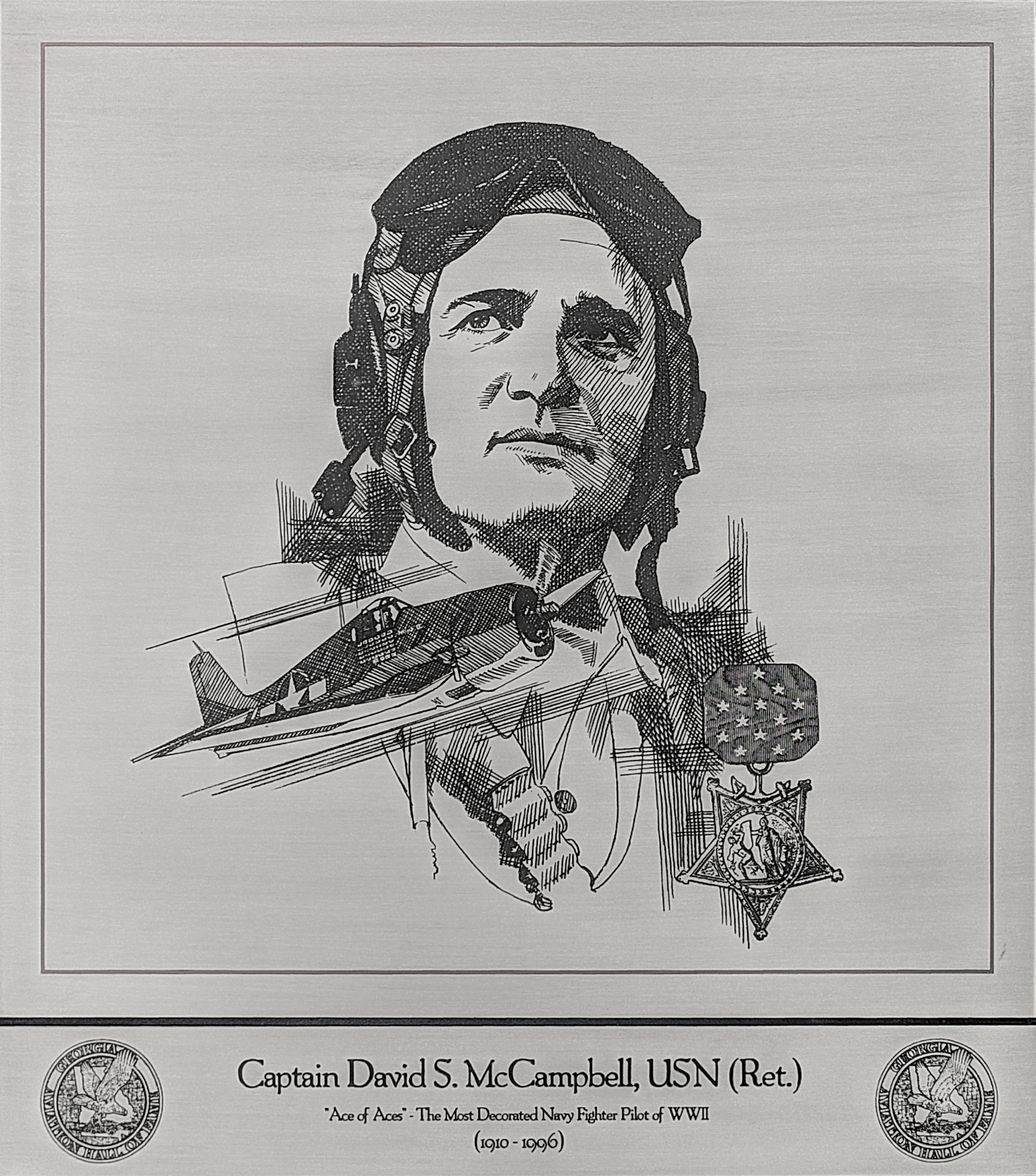 Captain David S. McCampbell